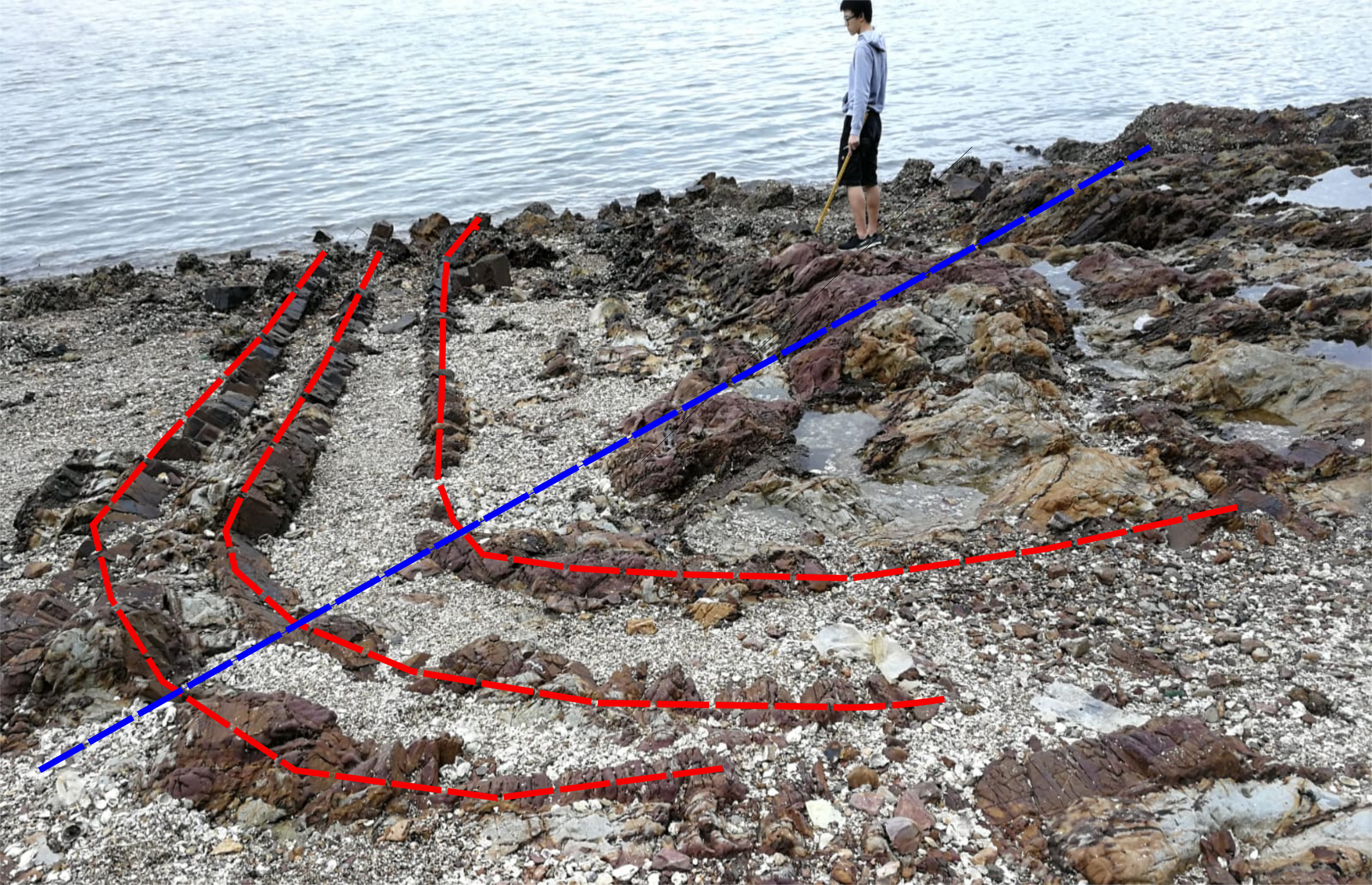 A fold on Ma Shi Chau, Hong Kong. Red are the limbs, blue line marked the axis